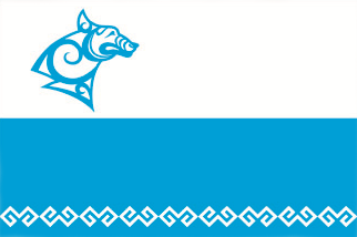 Flag of the Shor people